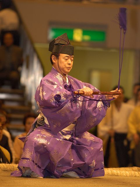 A gyōji, the 33rd Kimura Shonosuke, taking part in the yokozuna ring-entering ceremony.